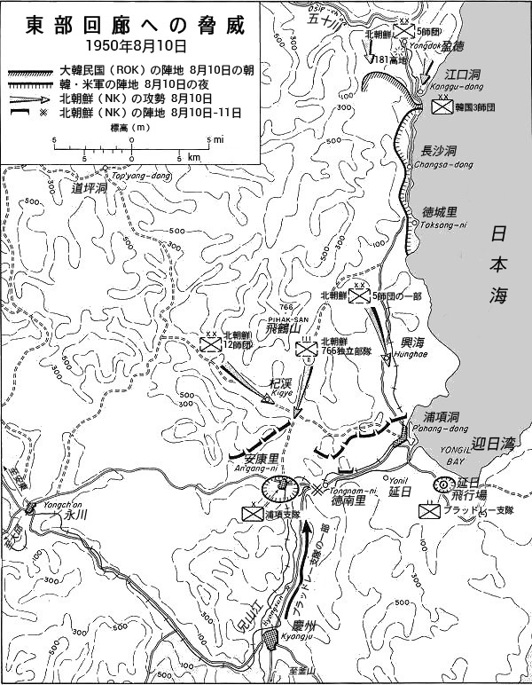 Map of the Battle of P'ohang-dong